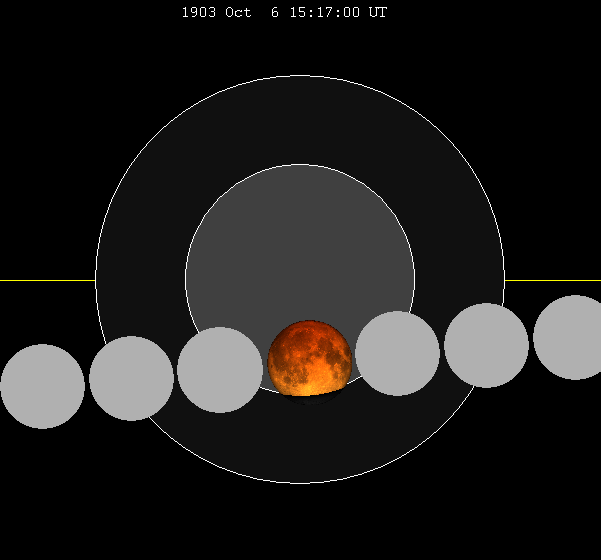 lunar eclipse chart of moon's penumbral lunar eclipse path through the earth's shadow. thumb